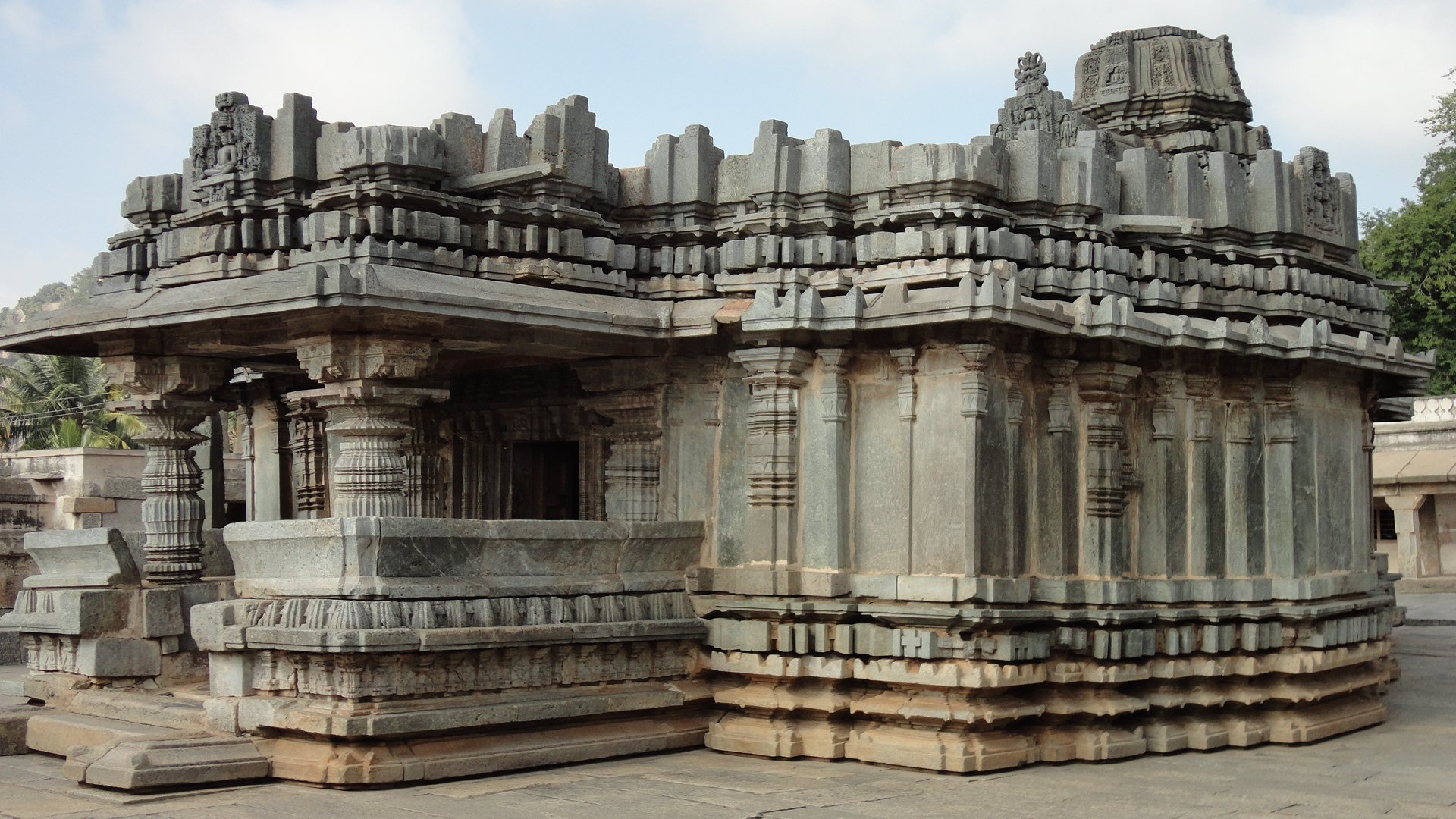 The north-eastern coverage of the Akkana Basti, Sravanabelgola, Hassan, Karnataka is covered in this photograph. This covers carvings all through the outer part of the temple. One can notice the topmost arch of the dome (spade shaped structure called Kalasa) is absent due to destruction during the ancient invasions.